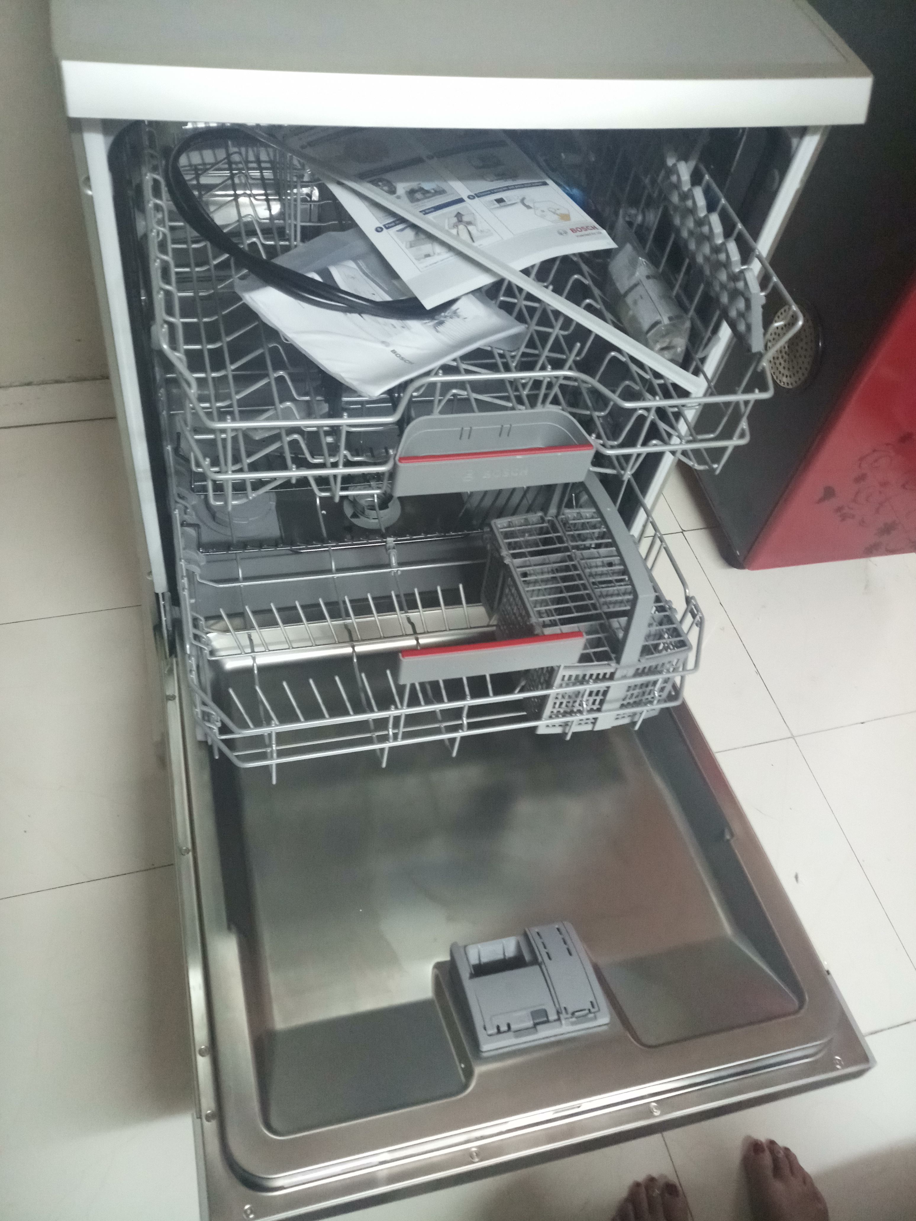 Dish Washer inside Image